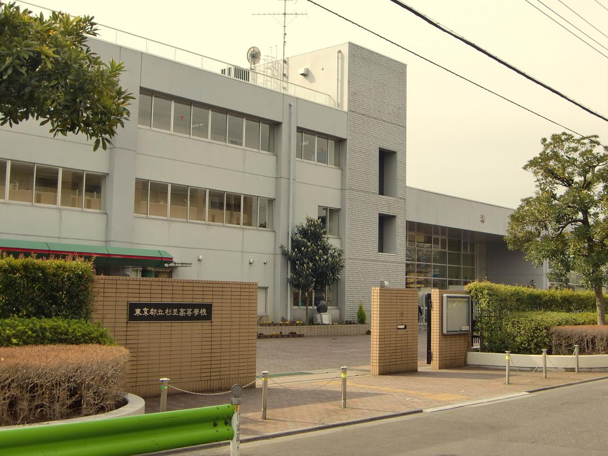 Tokyo Metropolitan Senior High School entrance in Suginami, Tokyo.